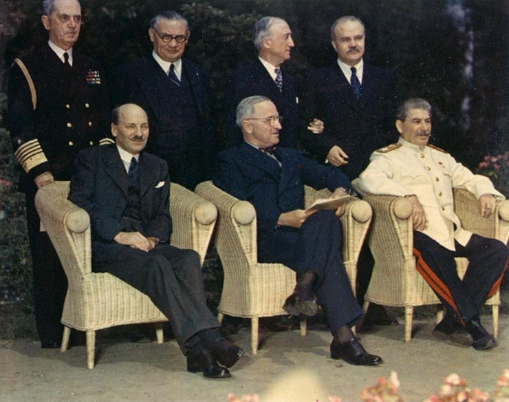 Clement Attlee, Harry S. Truman, and Joseph Stalin at the Potsdam Conference, July 1945. The "Big Three" pose with their principal advisors, at Potsdam, Germany, circa 28 July -- 1 August 1945. The three heads of government are (seated, left to right): British Prime Minister Clement Attlee; U.S. President Harry S. Truman; Soviet Premier Joseph Stalin. Standing behind them are (left to right): Fleet Admiral William D. Leahy, USN, Truman's Chief of Staff; British Foreign Minister Ernest Bevin; U.S. Secretary of State James F. Byrnes; Soviet Foreign Minister Vyacheslav Molotov.